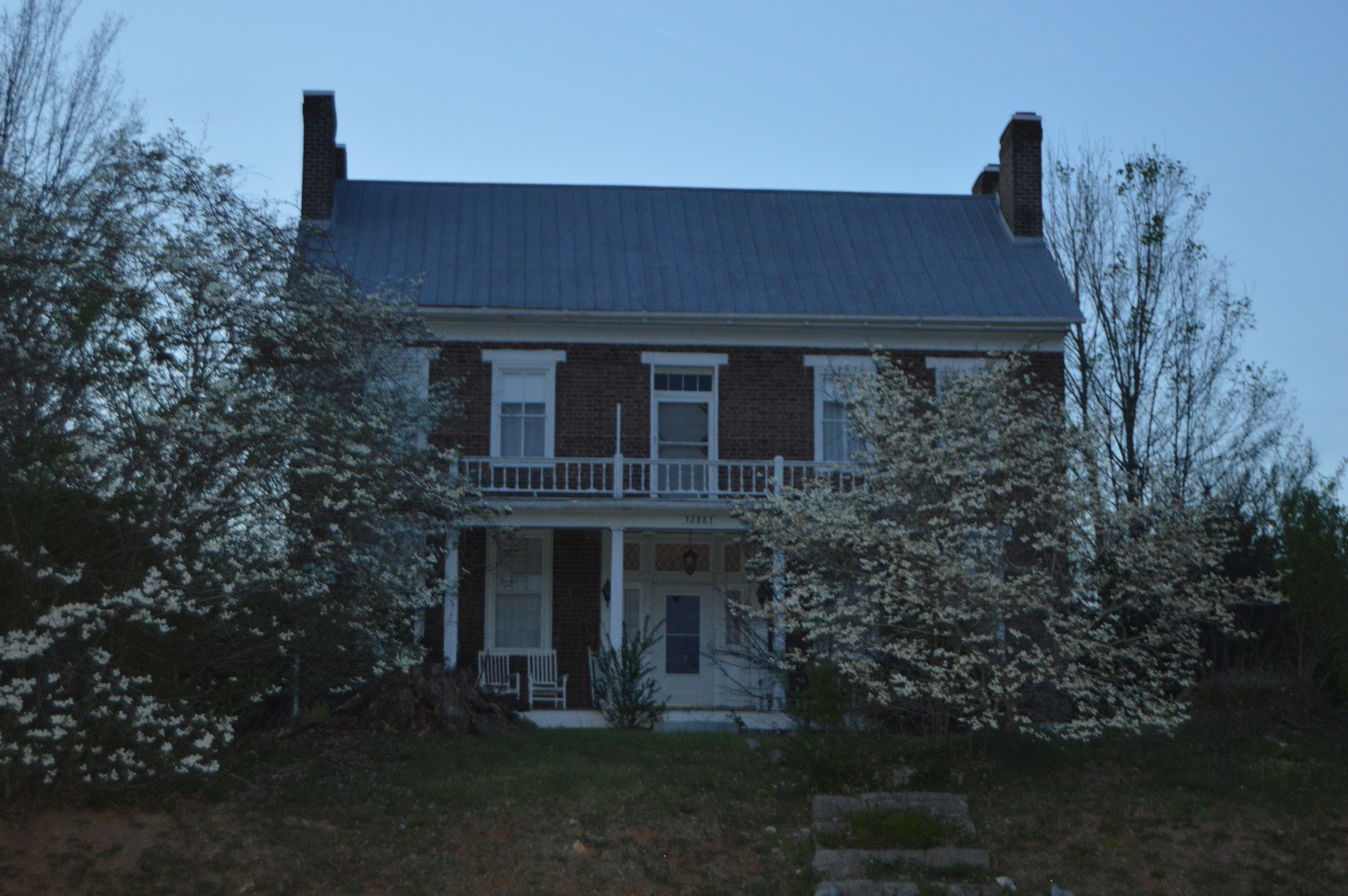 Front of the Dickinson-Milbourn House, located along the northern side of U.S. Route 58 in Jonesville, Virginia, United States. Built in 1844, it is listed on the National Register of Historic Places.